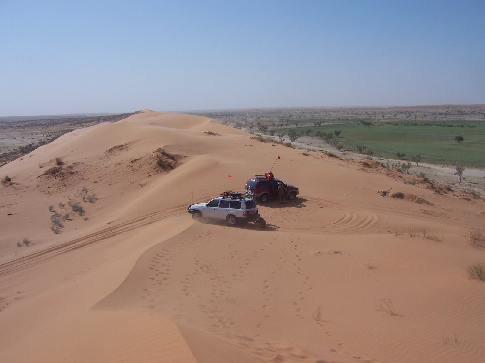 1999 Ford Explorer XLT and Toyota Landcruiser on Big Red (Nappanerica) sand dune on the eastern edge of the Simpson Desert, about 40km from the town of Birdsville in south west Queensland, Australia.